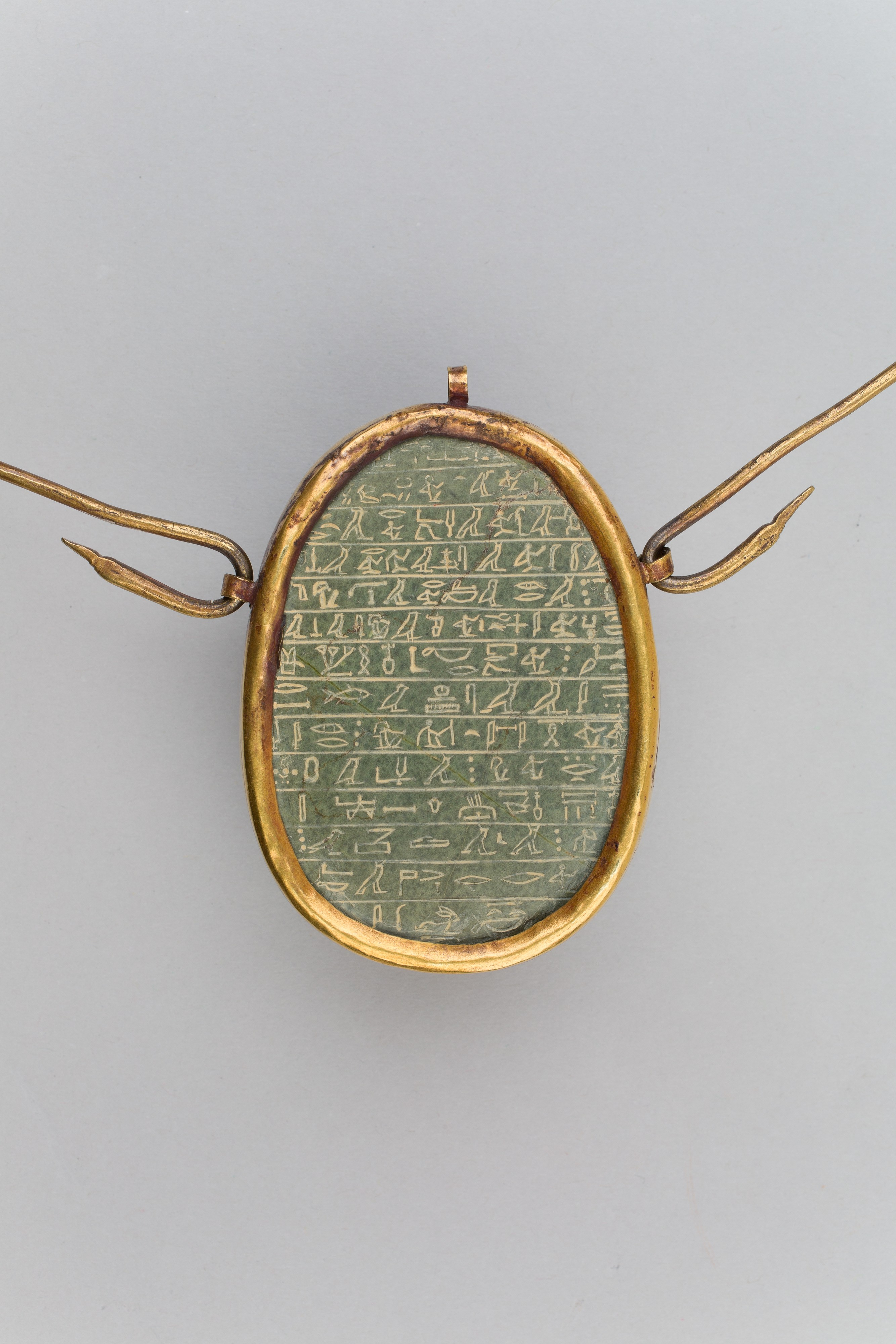 Heart Scarab, Maruta